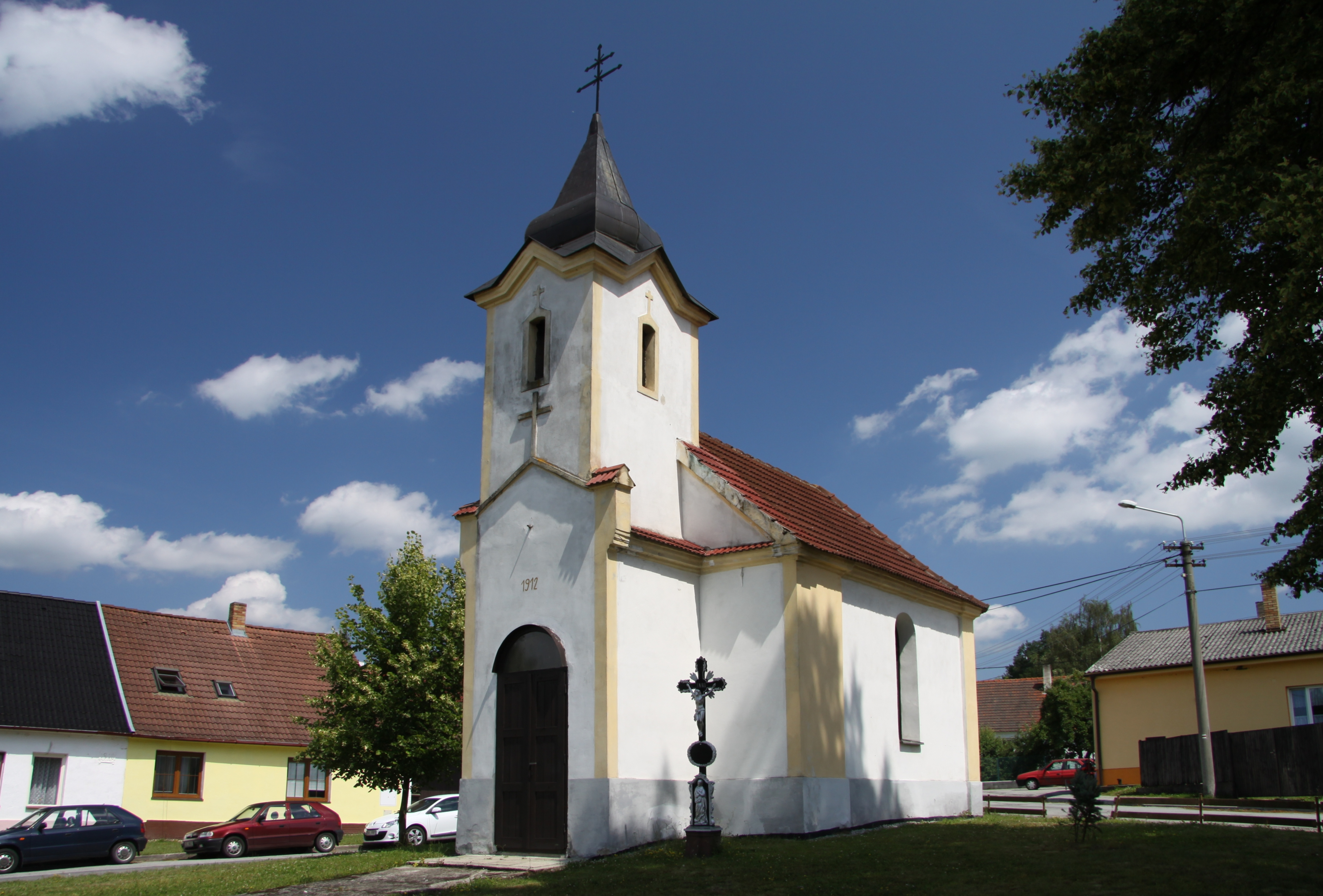 Chapel in Klec village in Jindřichův Hradec District, Czech Republic - OpenStreetMap(Info)